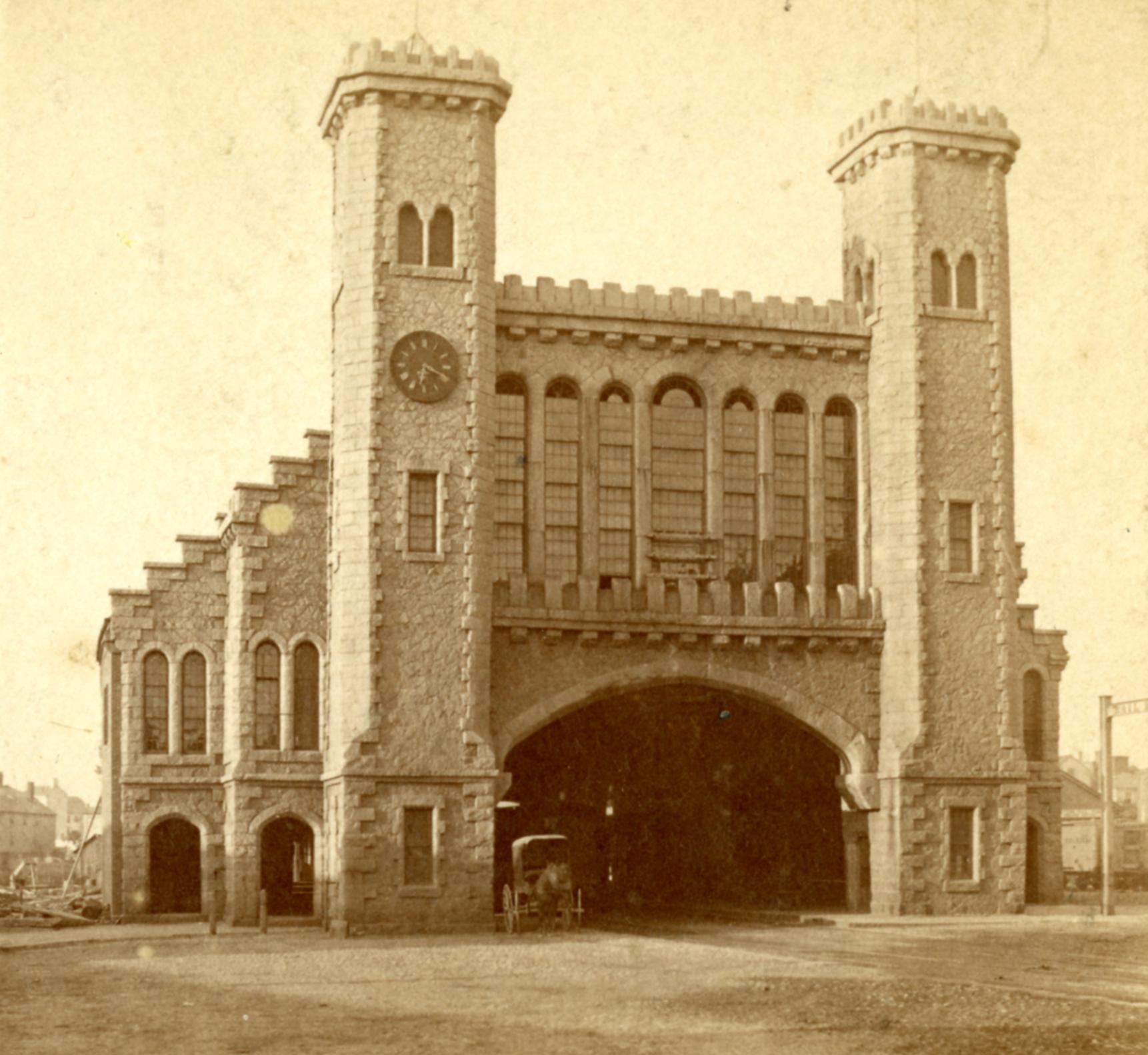 Stereo view of the Eastern Railroad depot in Salem, Massachusetts, at the end of Washington Street. A horse-drawn carriage is visible in the center under the station's granite archway.